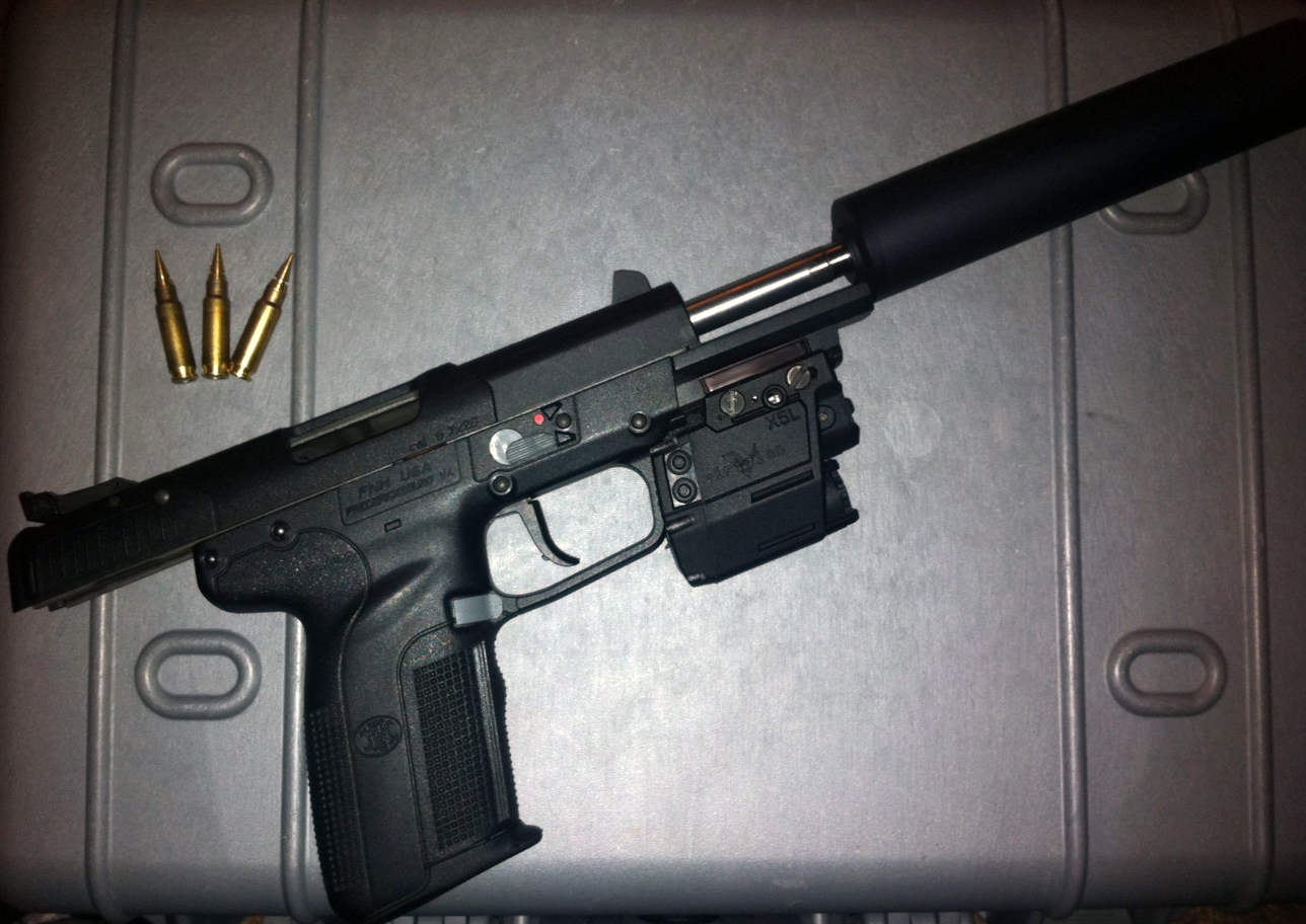 GK FN FIVE-SEVEN with SUPPRESSOR